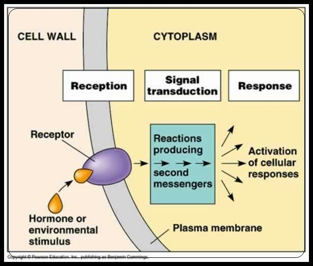 Signal Transduction Pathways Model